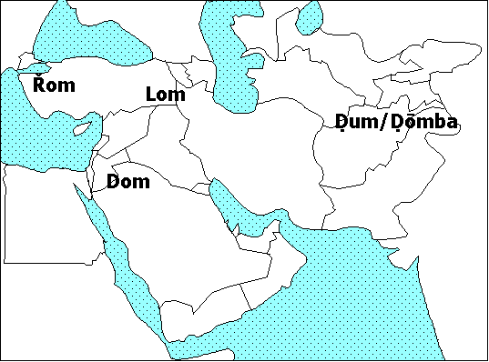 Traditionally itinerant populations speaking Indic languages outside India in the Middle East